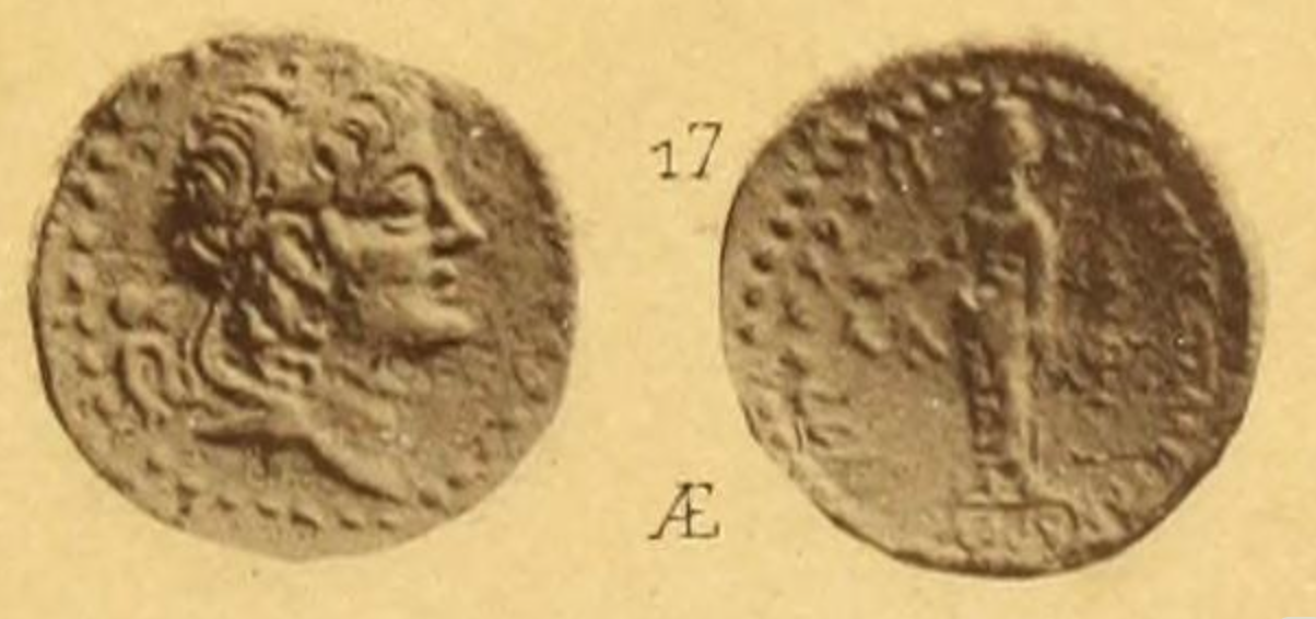 Coin of Alexander II Zabinas showing "Laodikeia, mother of Canaan". Description on page 172.